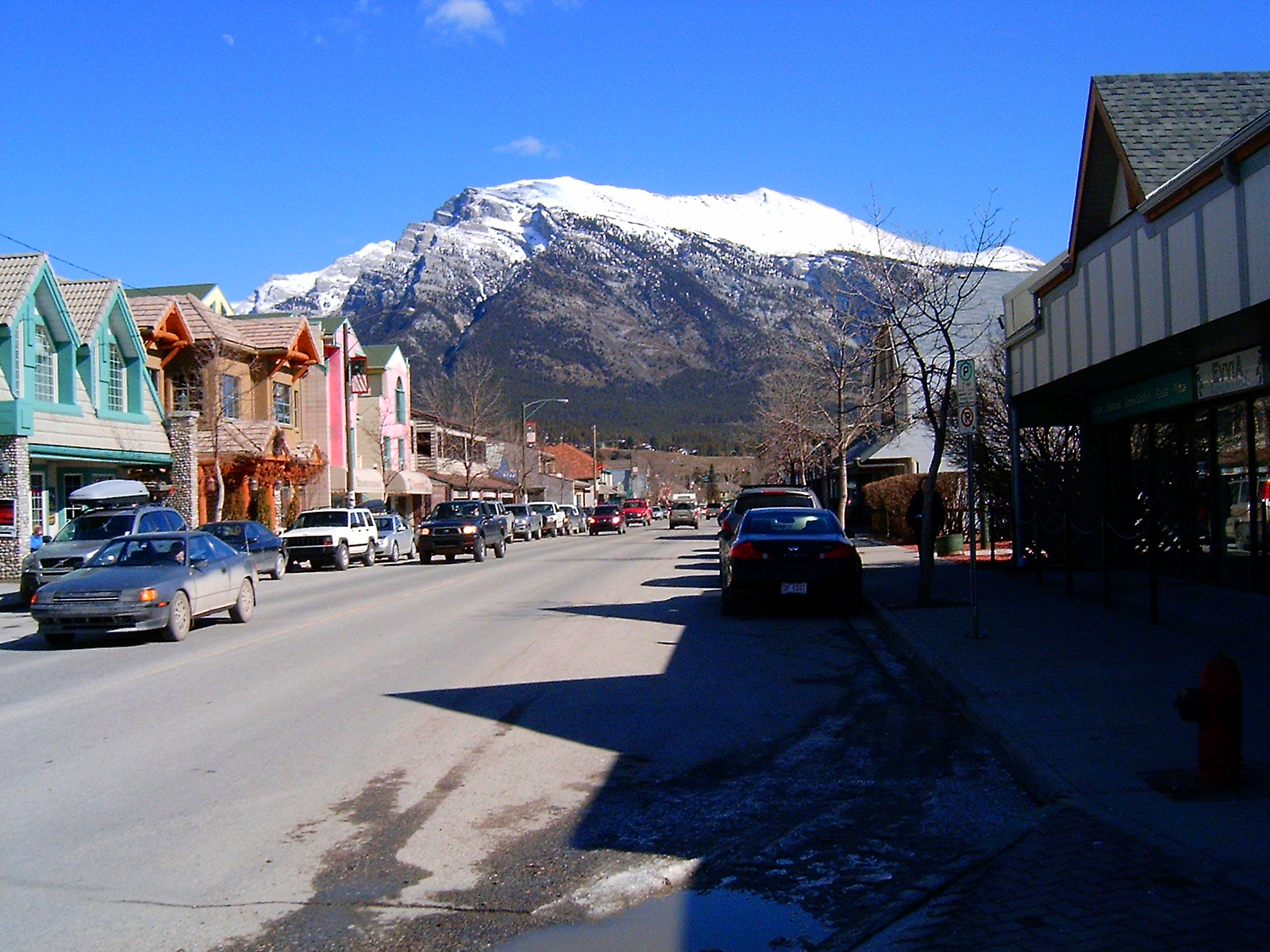 Mainstreet Canmore, Alberta looking east}